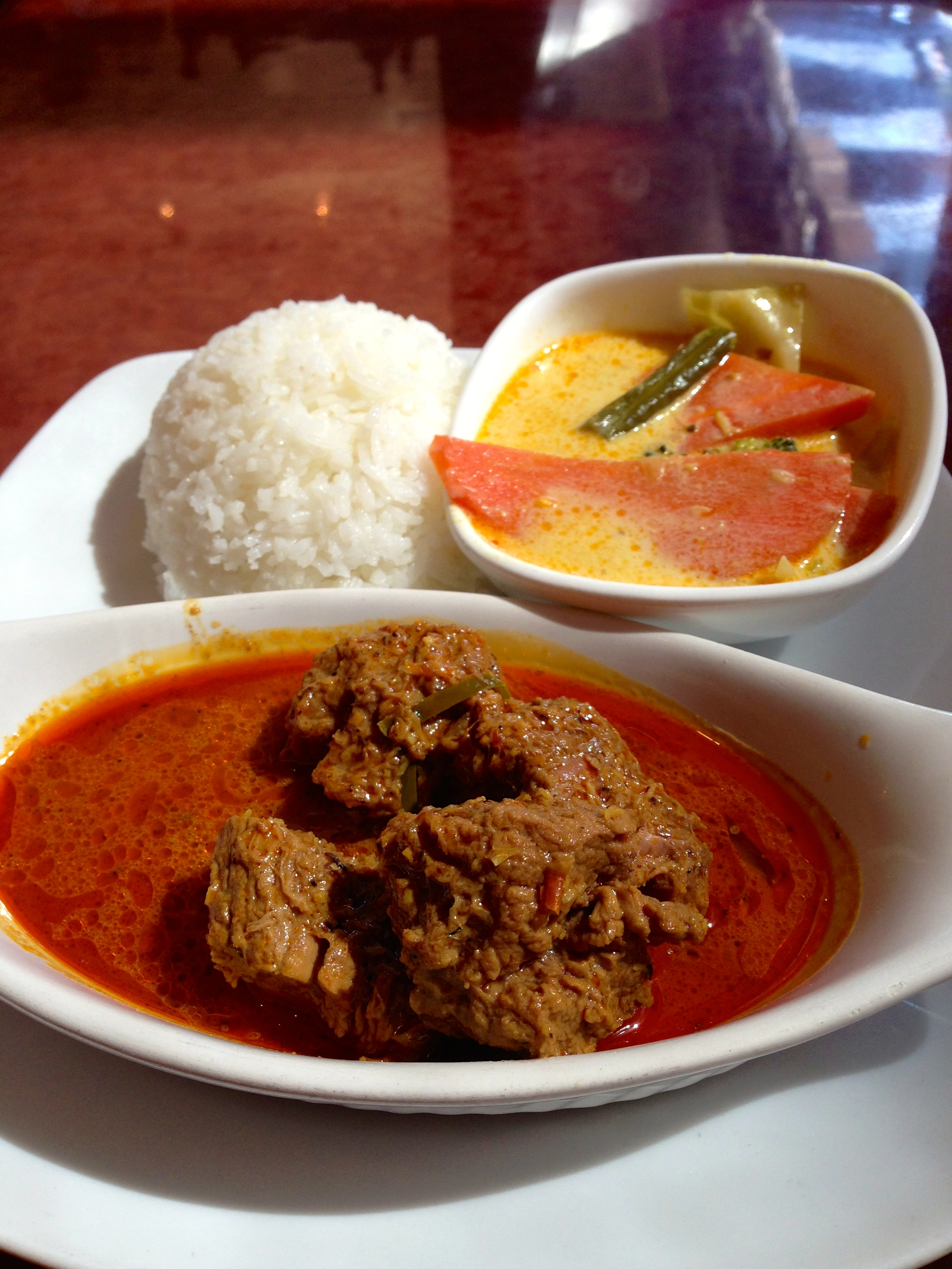 Rendang Beef curry served with coconut milk braised vegetables and rice